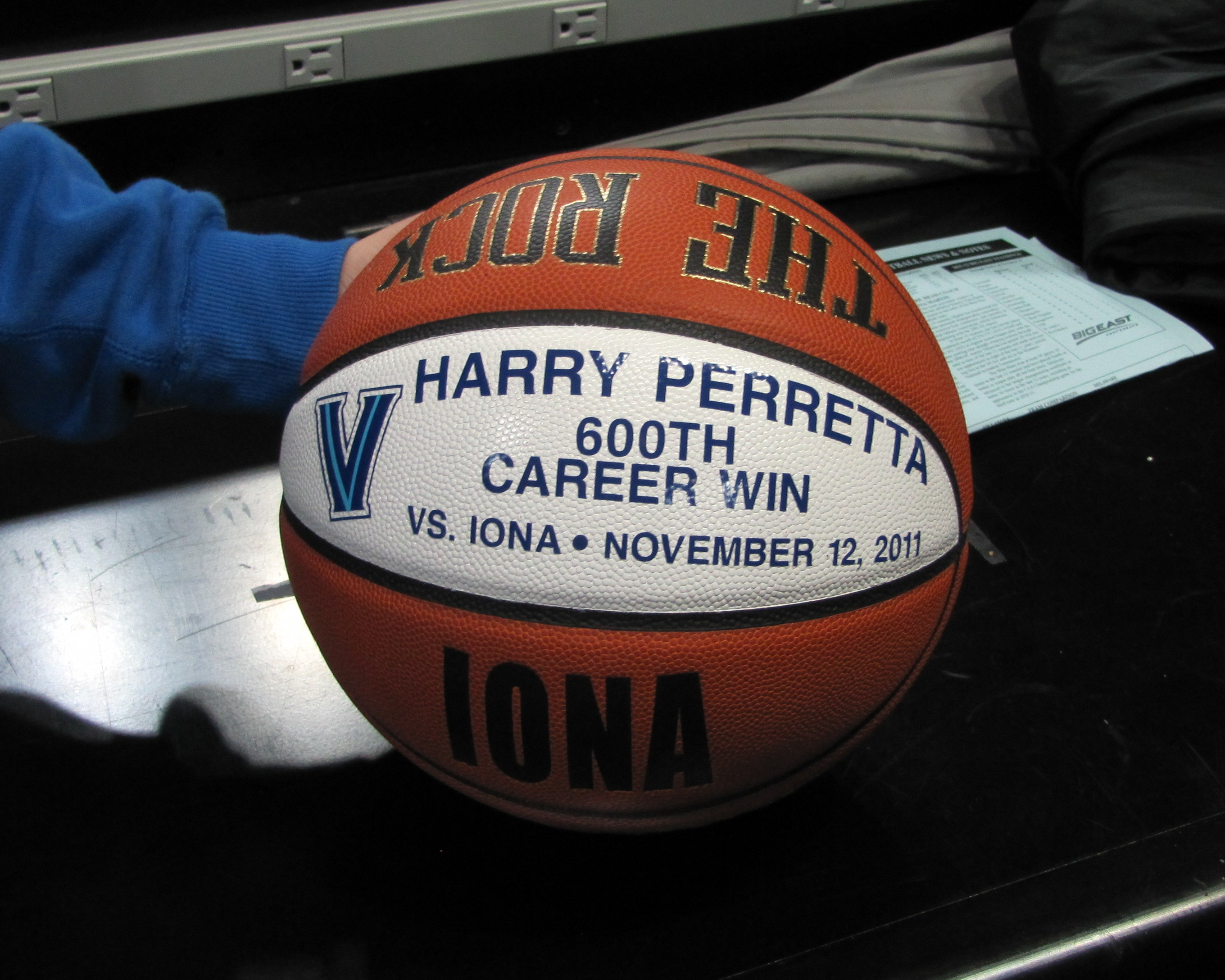 Commemorative ball in recognition of Perretta's 600th win, presented at the game against Delaware on 22 November 2011